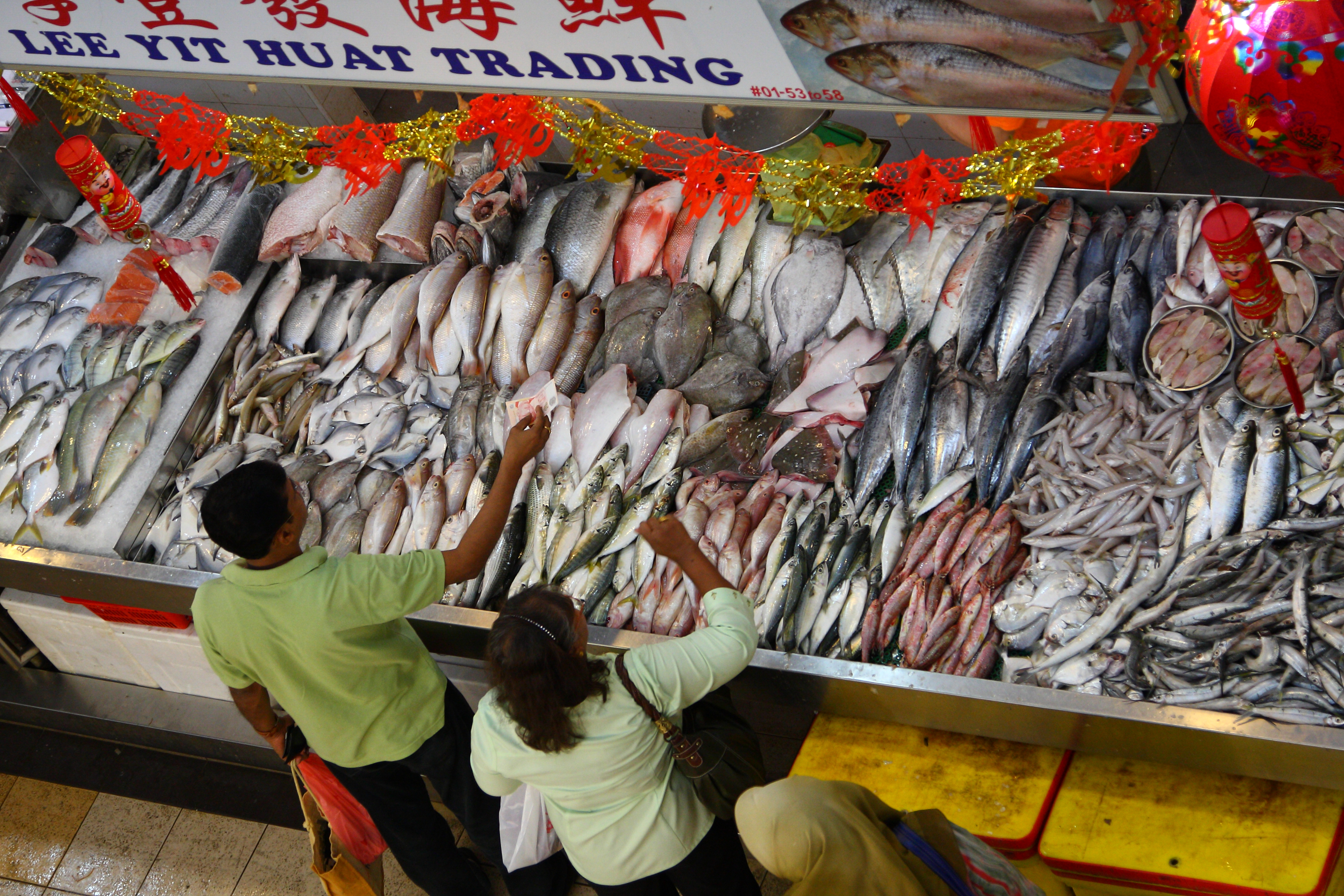 Wet market in Singapore